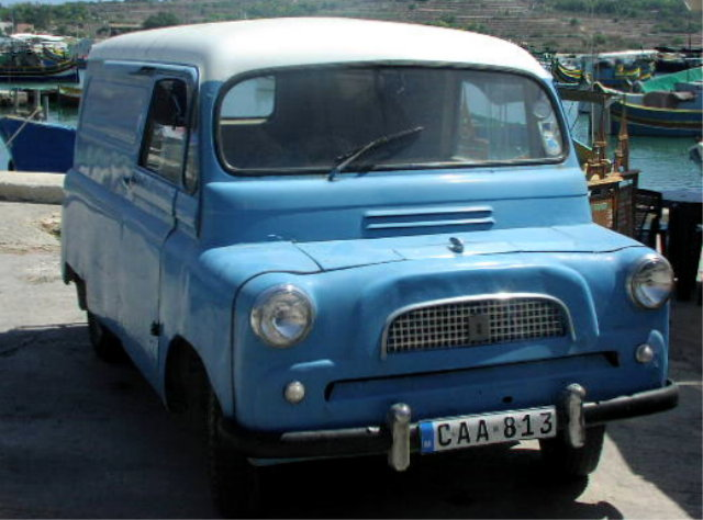 Bedford Van in Malta